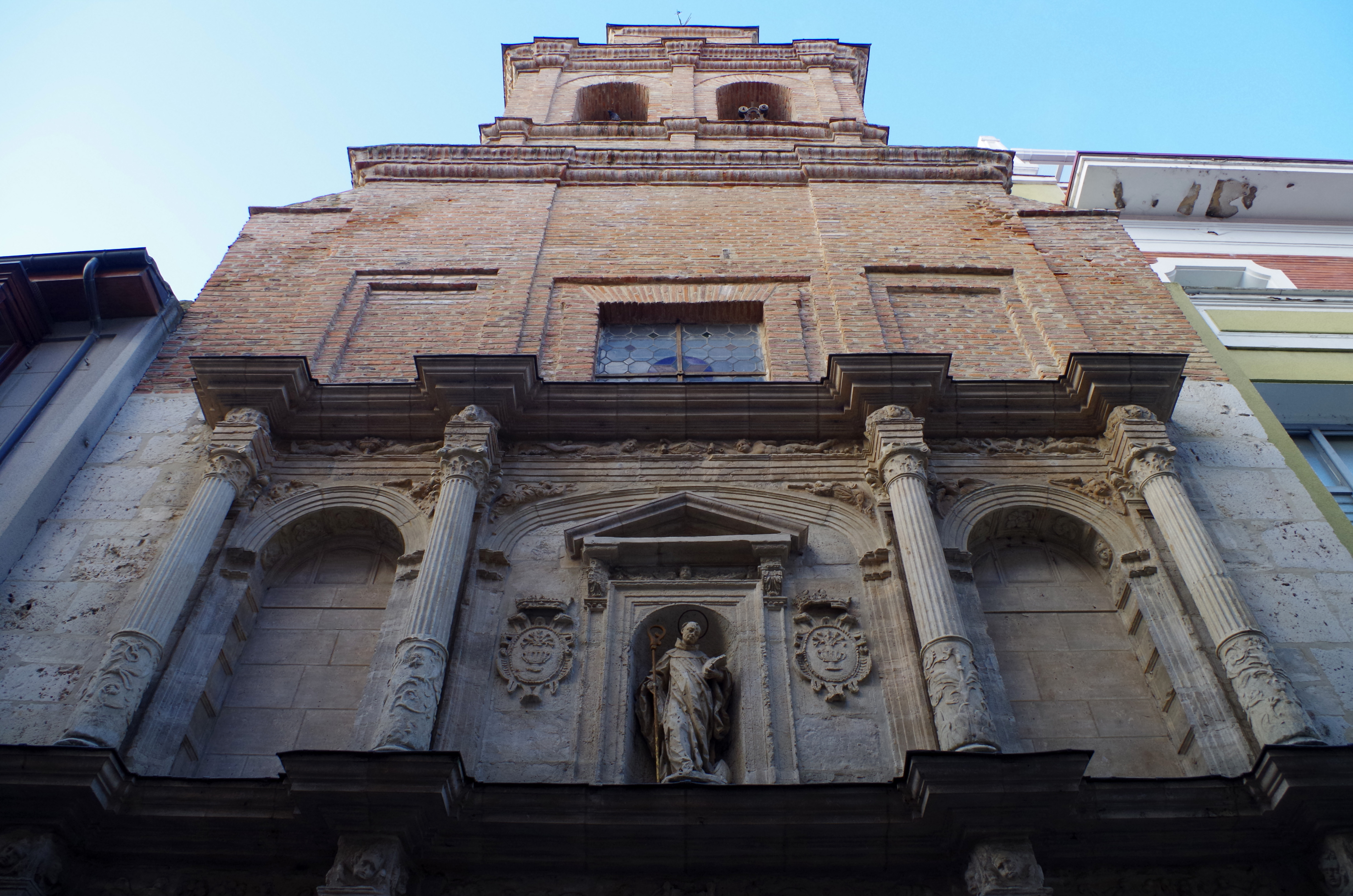 Facade of Saint Bernard's church, Palencia. (Palencia, Spain)